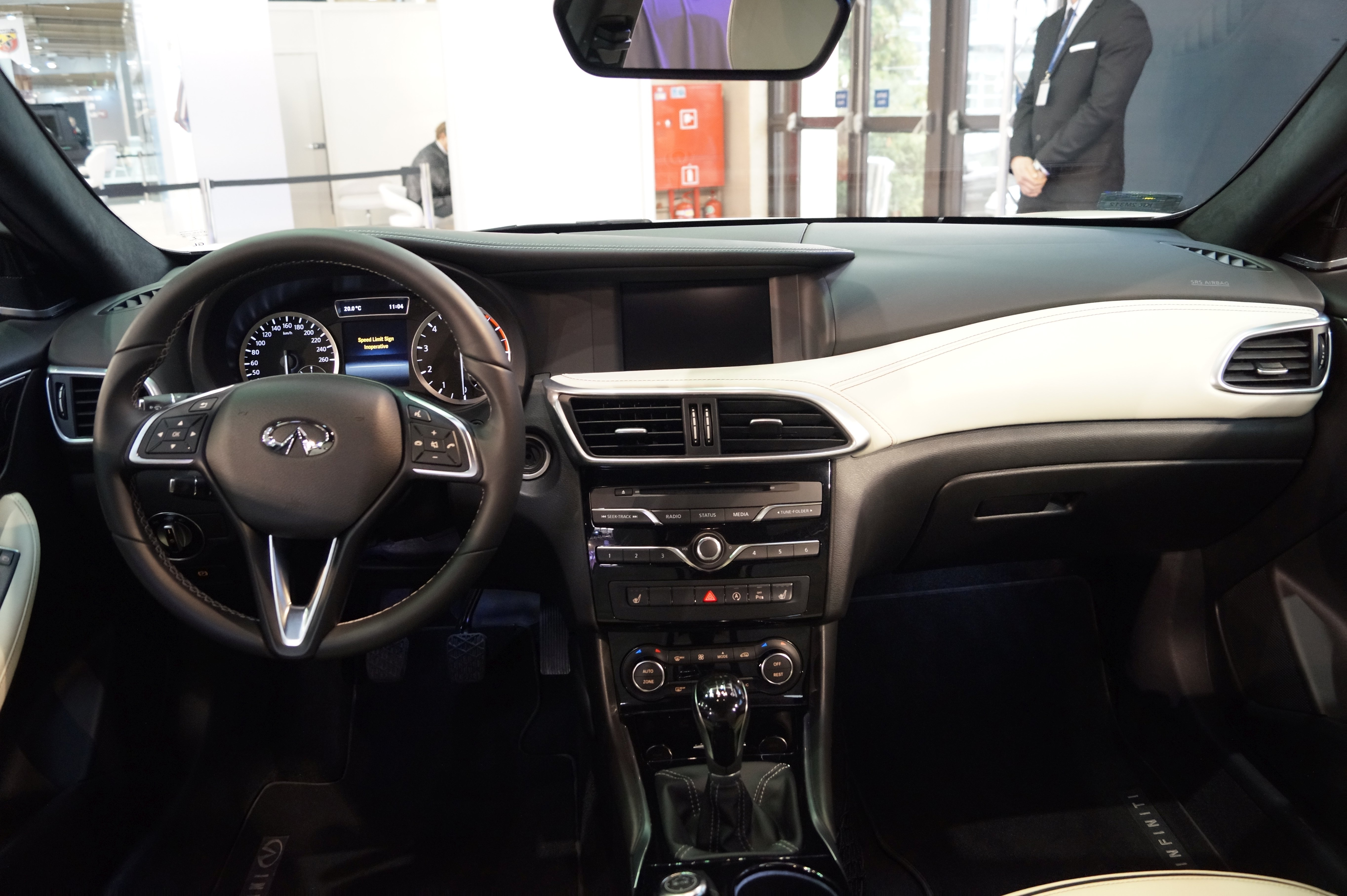 The making of this document was supported by Wikimedia Polska Association, within Wikigrant no. WG 2016-10. Wnętrze Infiniti Q30 na Motor Show Poznań 2016